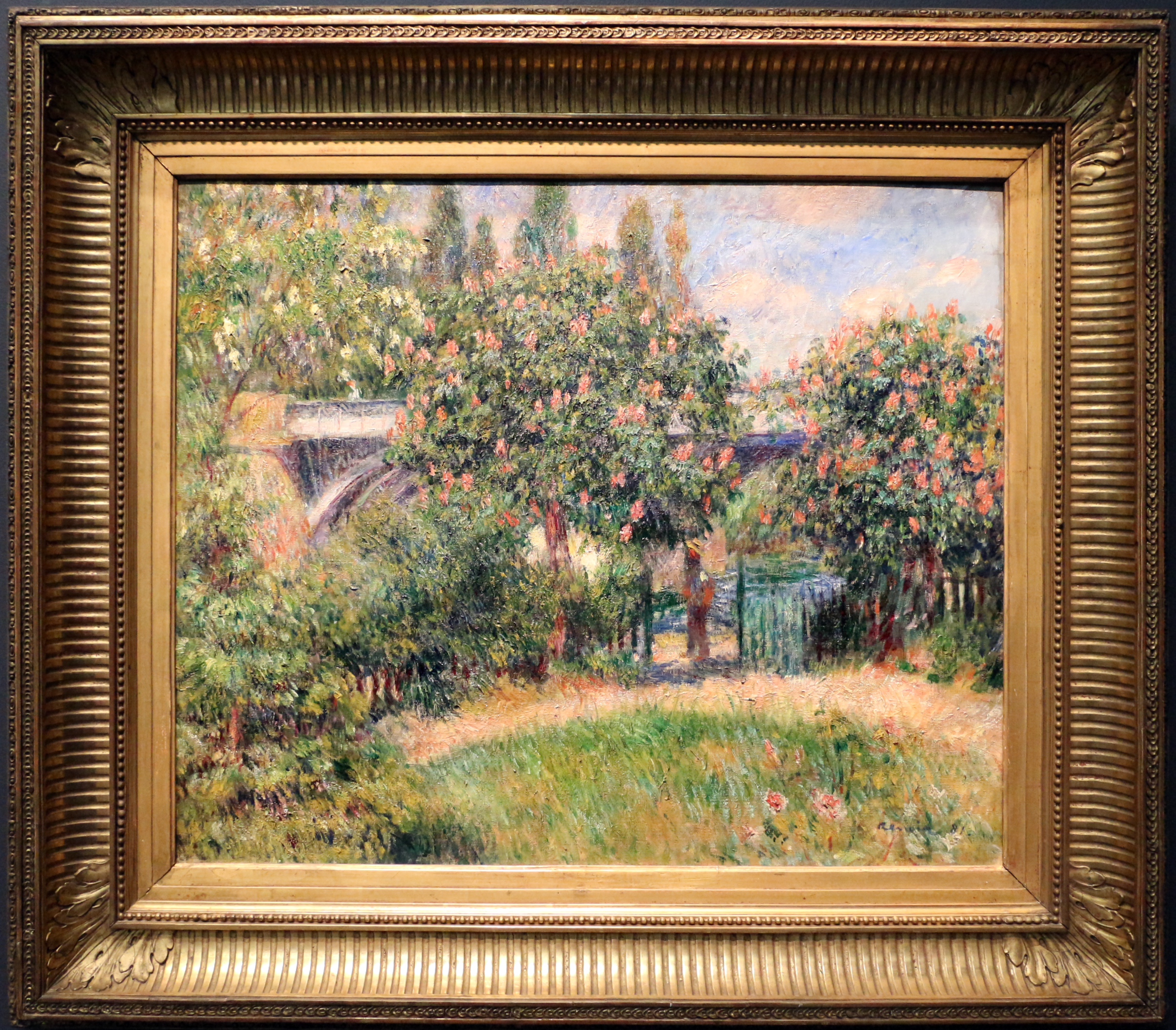 Paintings by Pierre-Auguste Renoir in the Musée d'Orsay